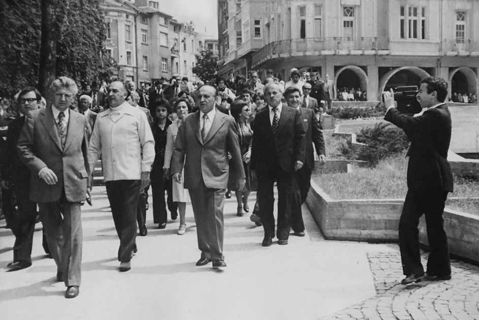 José López Portillo with former Bulgarian dictator Todor Zhivkov. Official visit in Plovdiv - the second-largest city in Bulgaria.